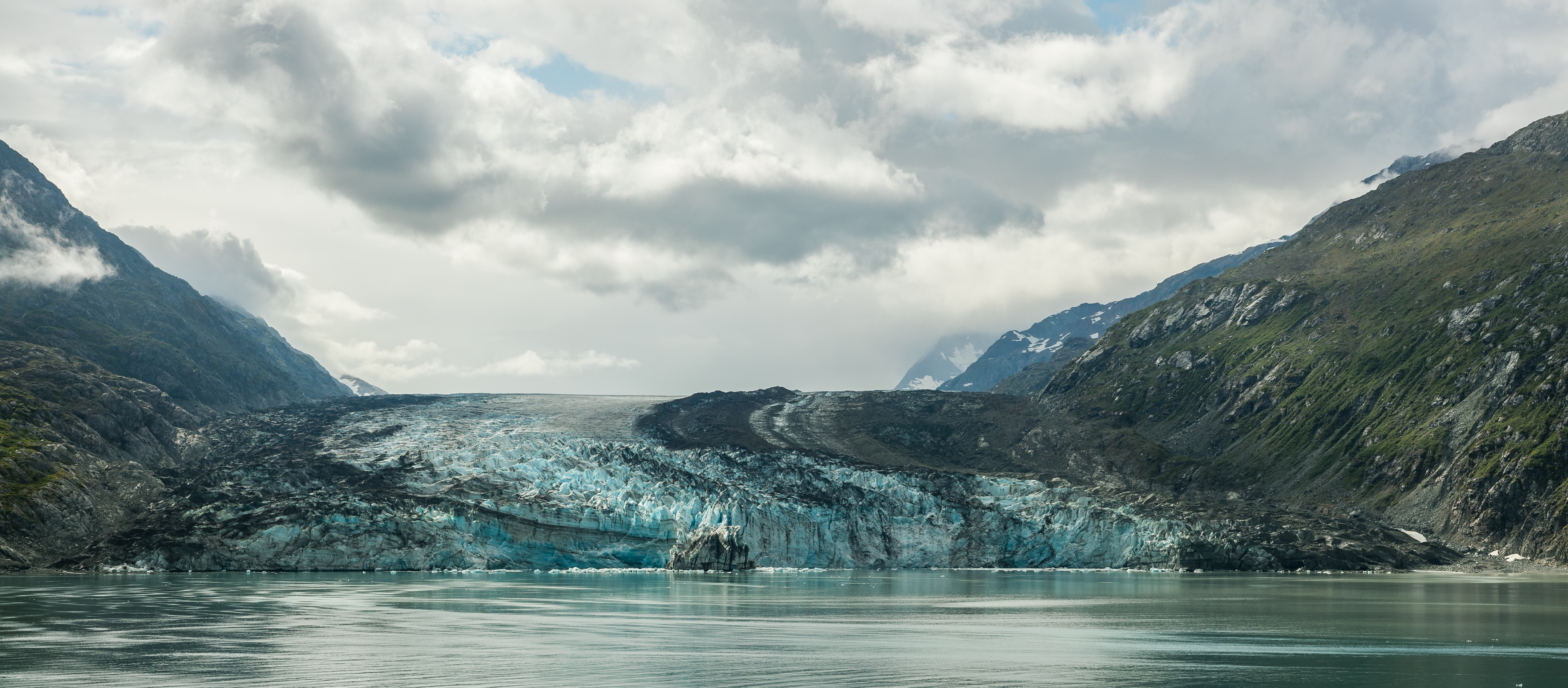 Lamplugh Glacier, Glacier Bay National Park, Alaska, United States